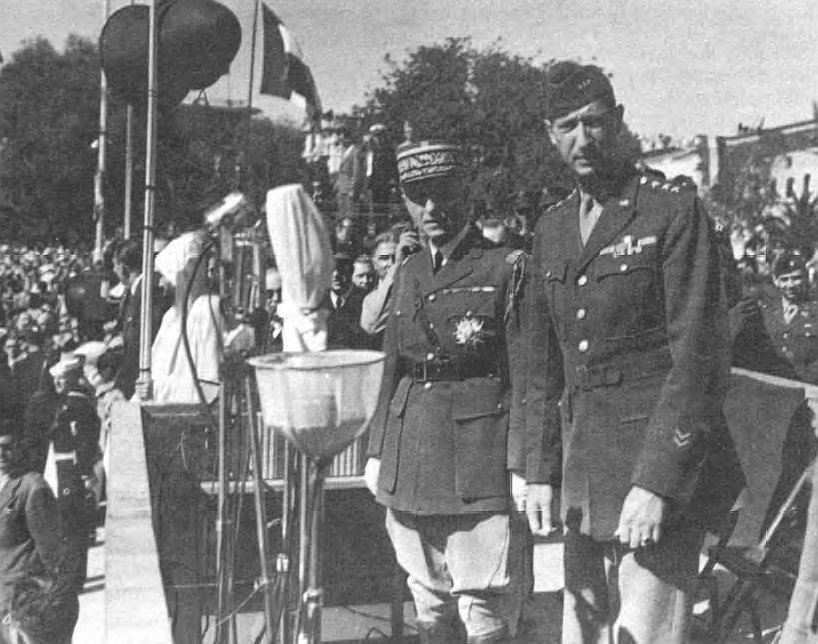 LT. GEN. MARK W. CLARK PRESENTING NEWLY ARRIVED U.S. EQUIPMENT to the French Ground Forces in a ceremony held at Casablanca, 9 May 1943. General Auguste Nogués is at the left.